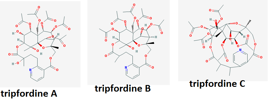 Tripfordine A-C